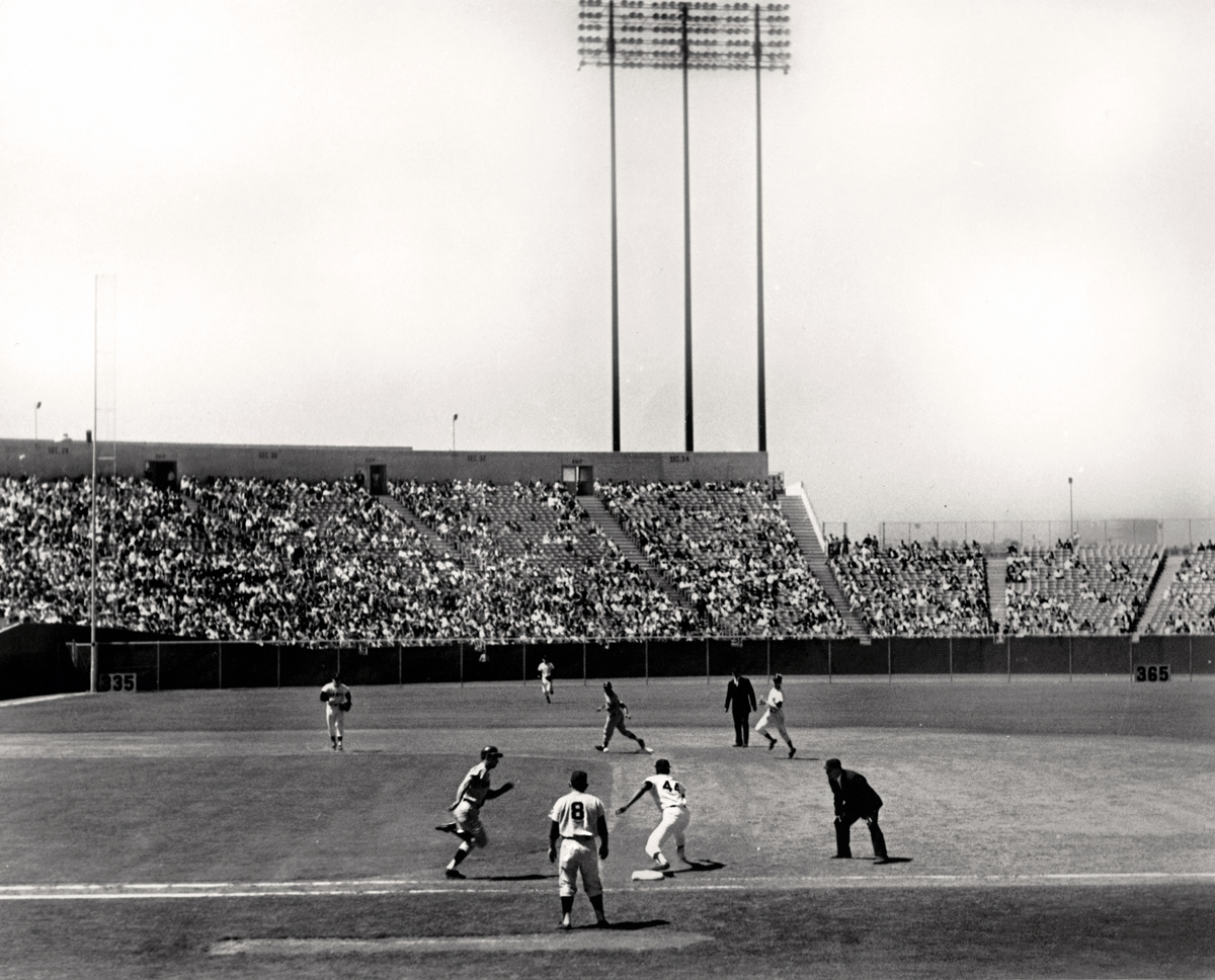 Candlestick Park in 1965, Home of the San Francisco Giants until 1999. Hall of famer Willie McCovey making the play at first base in a Sunday day game vs the Mets at the 'Stick. I shot this photo when I was fifteen and still have the negative. Leica IIIc with Kodak film.